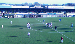 I took this photo on my mobile phone.